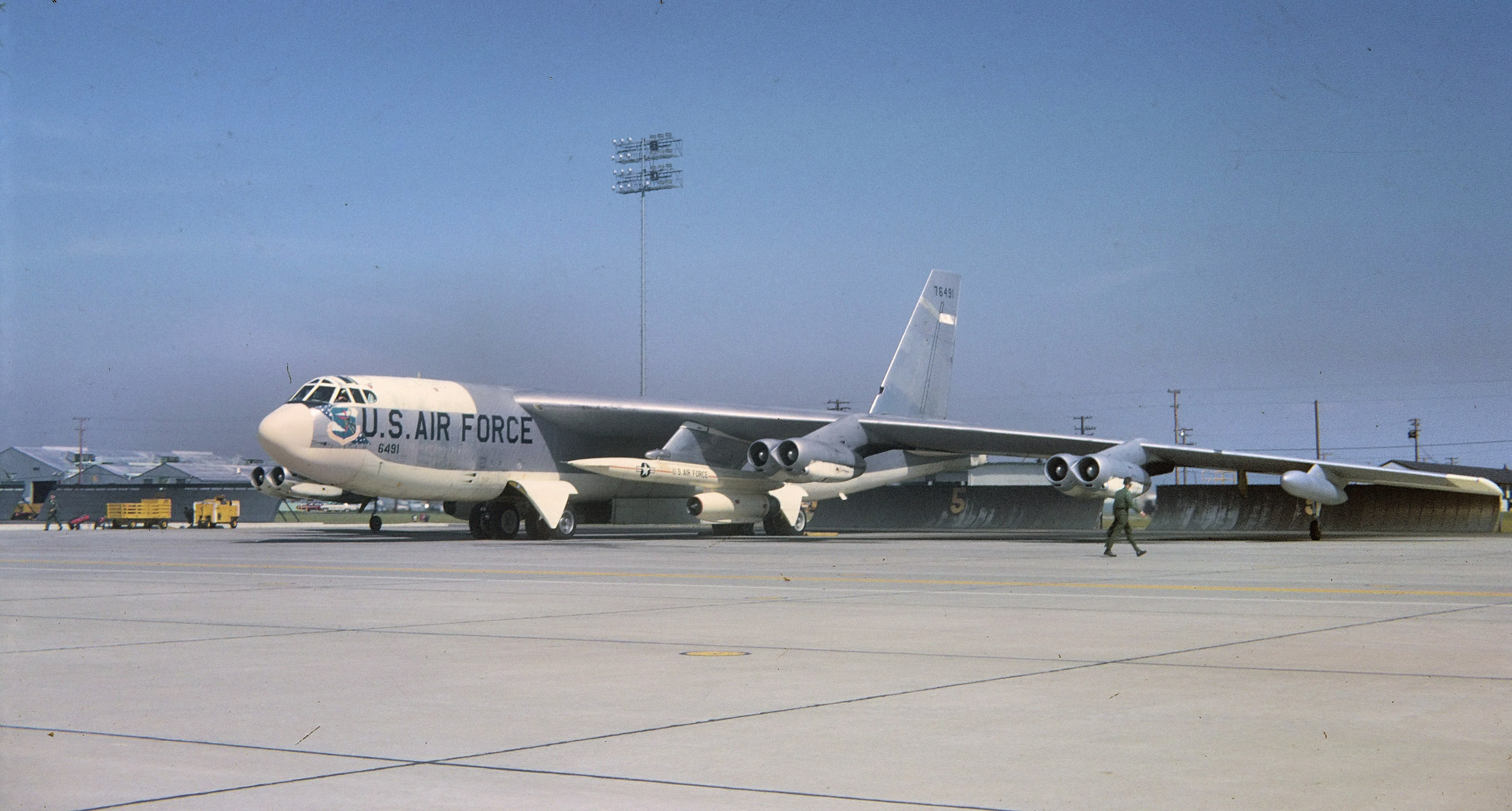 456th Bombardment Wing, Boeing B-52G-85-BW Stratofortress (57-6491), Beale AFB, California. Note GAM-77 Hound Dog under its wing. Aircraft sent to AMARC as BC350 8/9/90. Still at AMARC Jan 15, 2008